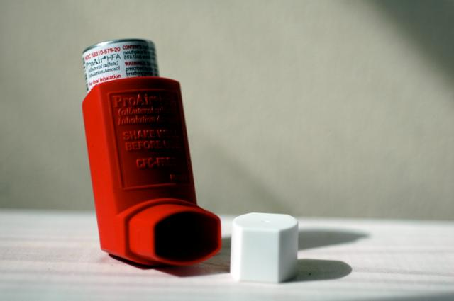 Image of an asthma inhaler. Credit: NIAID